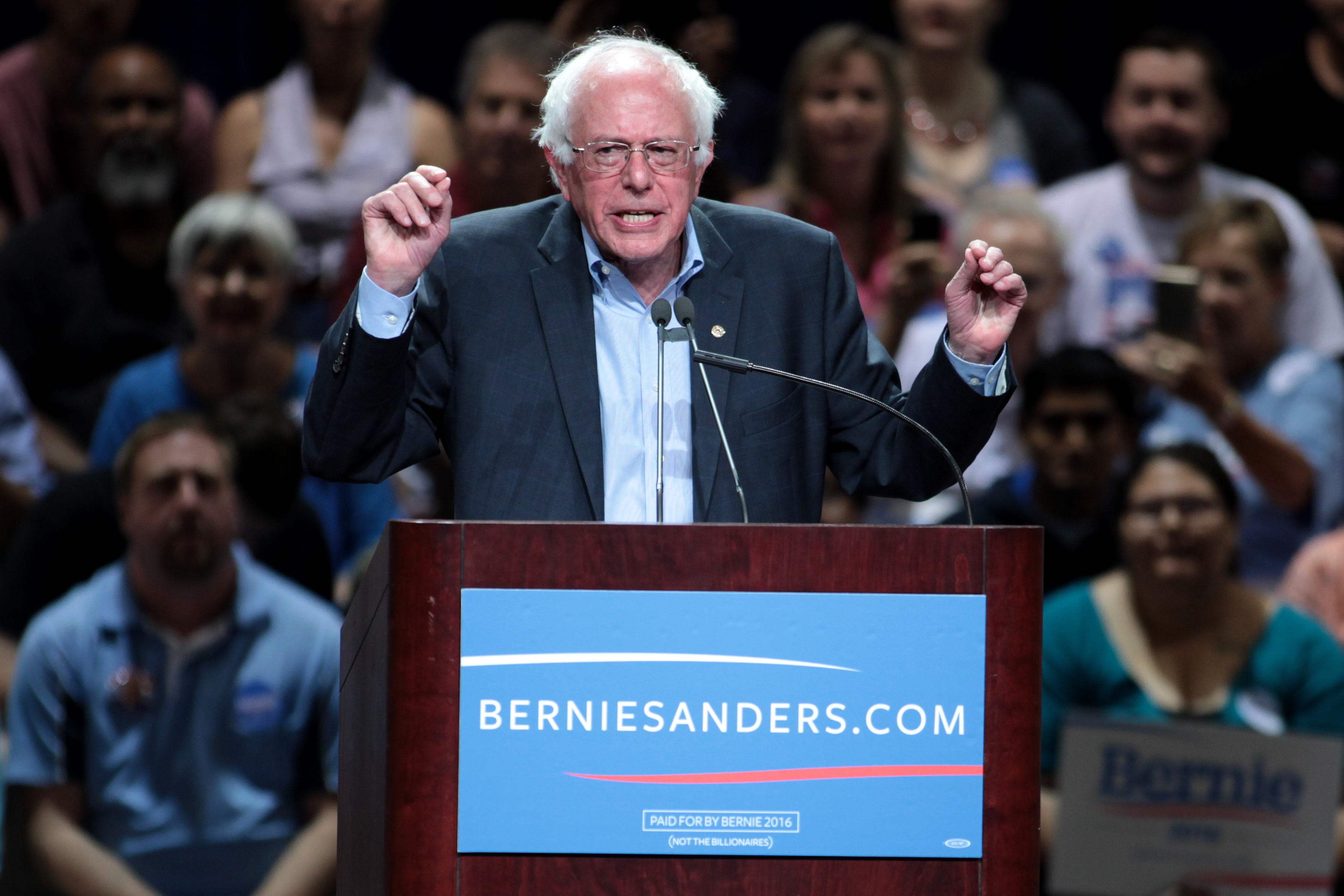 U.S. Senator Bernie Sanders of Vermont speaking at a town meeting at the Phoenix Convention Center in Phoenix, Arizona.